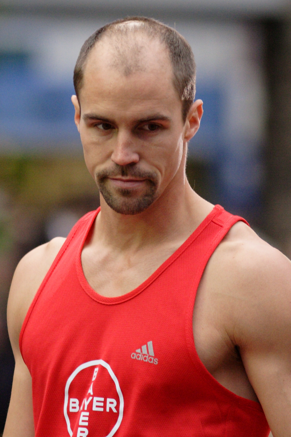 This image shows Richard Spiegelburg, who is a German pole-vaulter. The photograph was made during the Domspringen competition in Aachen, Germany.